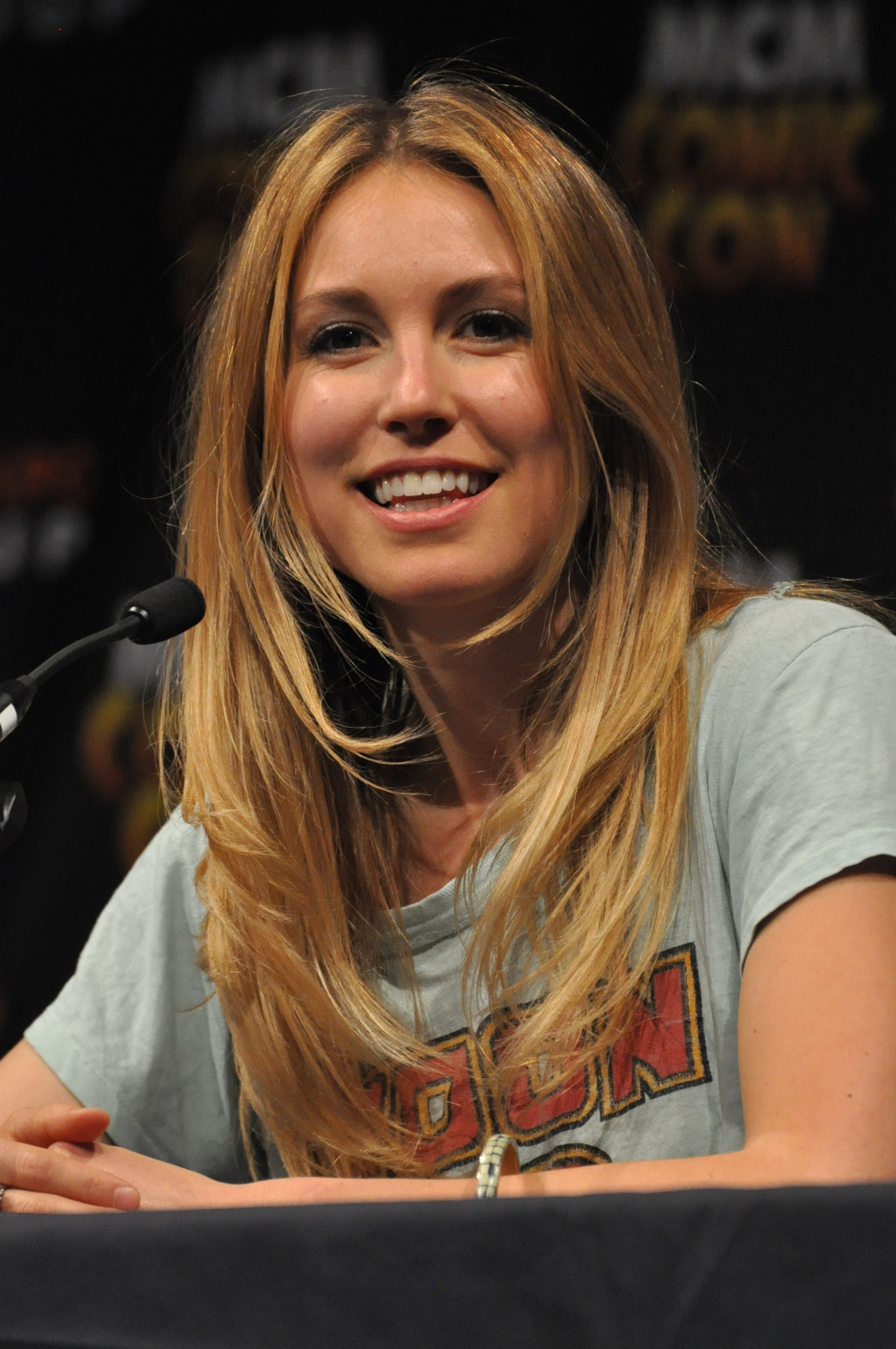 The following is the author's description of the photograph quoted directly from the photograph's Flickr page. : This photo is in 1 group : MCMComicCon The UK's No1 Events (4,966 items) This photo is in 1 album LCC 2013 - Falling Skies Panel (91 items)